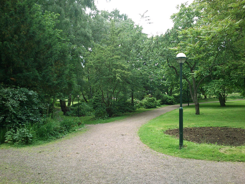 Citadel Park, Landskrona, summer 2011